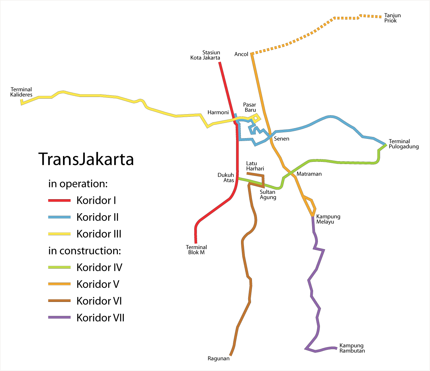 Topological sketch of the TransJakarta network after opening of the corridors under construction in October 2006